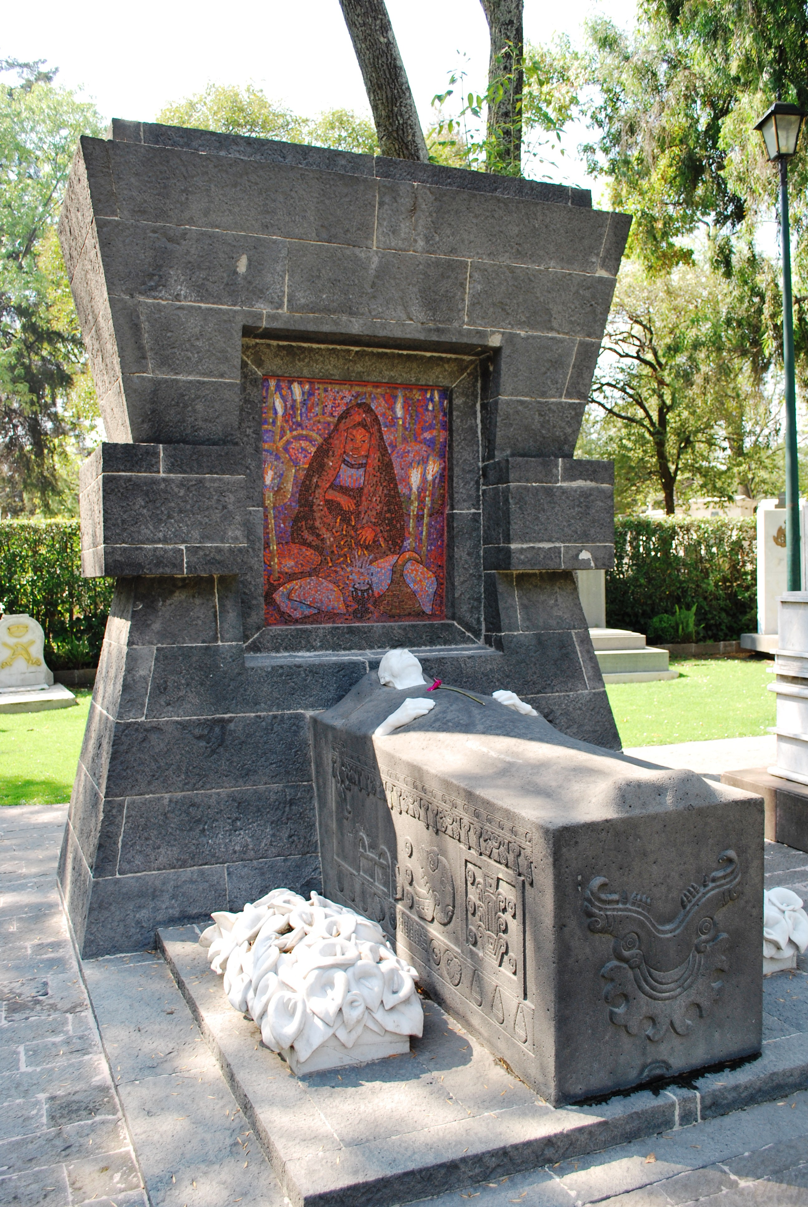 Front of the Diego Rivera tomb located in the Panteon Civil de Dolores Cemetery in Mexico City.